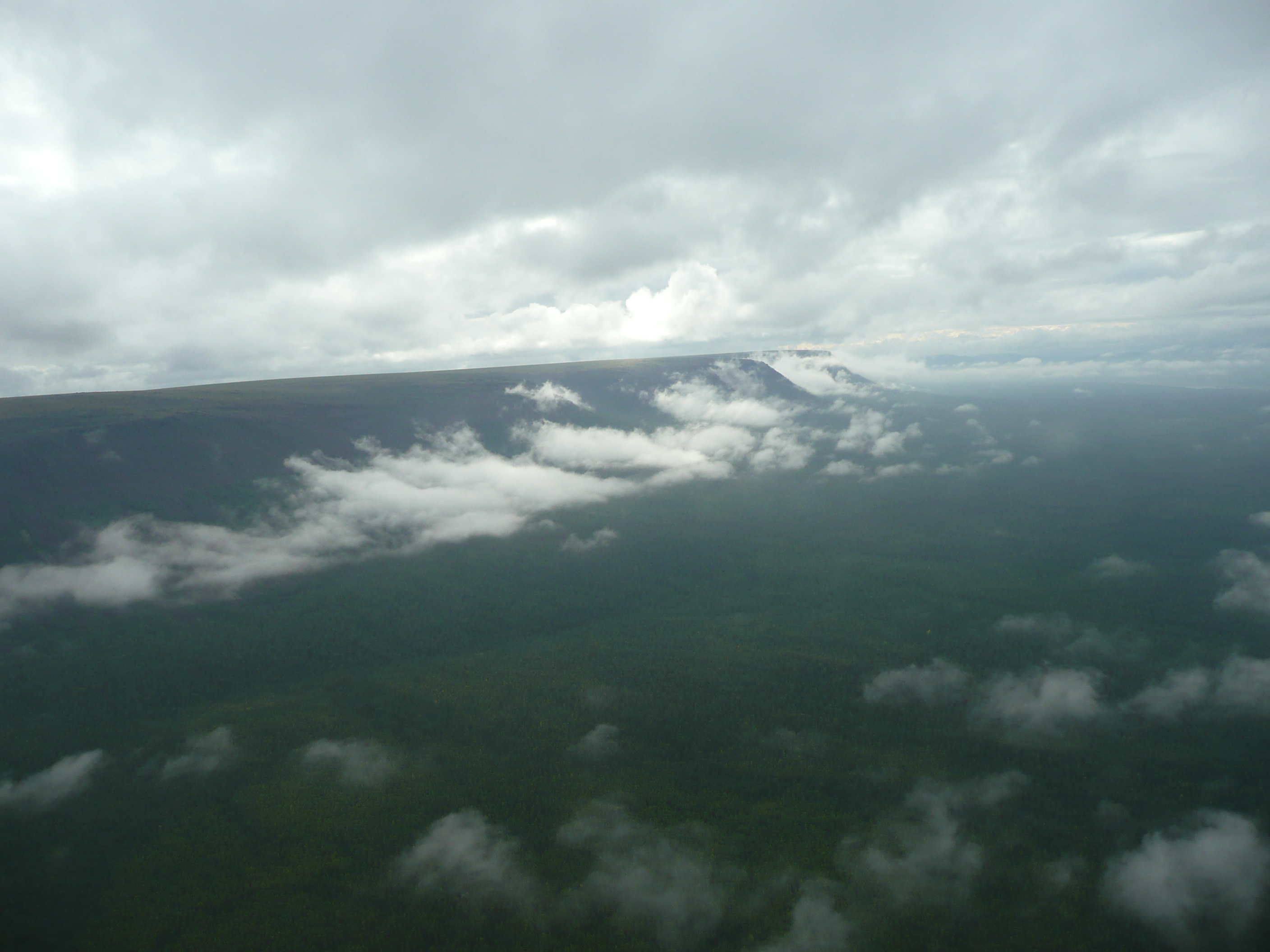 Central Siberian Plateau unidentified location A geocoded location could be added to this image. Visit Commons:Geocoding for information on how to add coordinates. Beta-test: Add coordinates helps to determine coordinates.